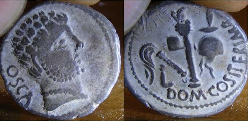 RRC 532/1 SYD 1358 GNAEUS DOMITIUS CALVINUS 39 BC DOM COS ITER IMP